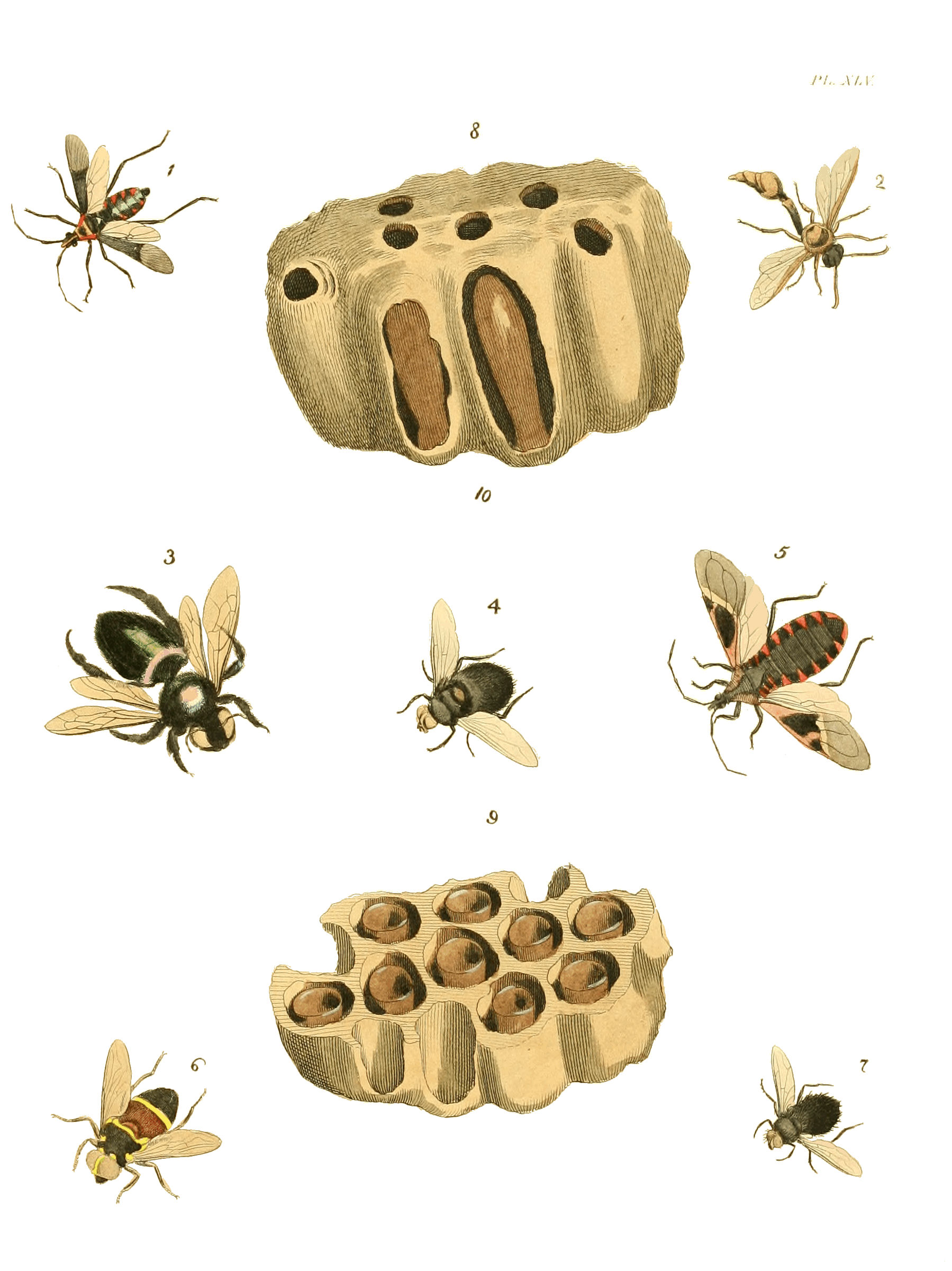 Plate XLV. 1. LEPTOSCELIS PICTUS (= Phthiacnemia picta). 2. EUMENES ABDOMINALIS (= Zeta abdominalis). 3. CENTRIS GROSSA (= Xylocopa grossa ). 4. ECHINOMYIA HIRTA (current synonymy uncertain). 5. REDUVIUS (CONORHINUS) VARIEGATUS (= Triatoma rubrofasciata). 6. ERISTALIS CINCTUS (current synonymy uncertain). 7. ECHINOMYIA PILOSA (current synonymy uncertain). 8-10. PELOPÆUS CÆMENTARIUS (= Sceliphron caementarium). 8. Nest—9. Section of the Nest—10. two Cocoons exposed.